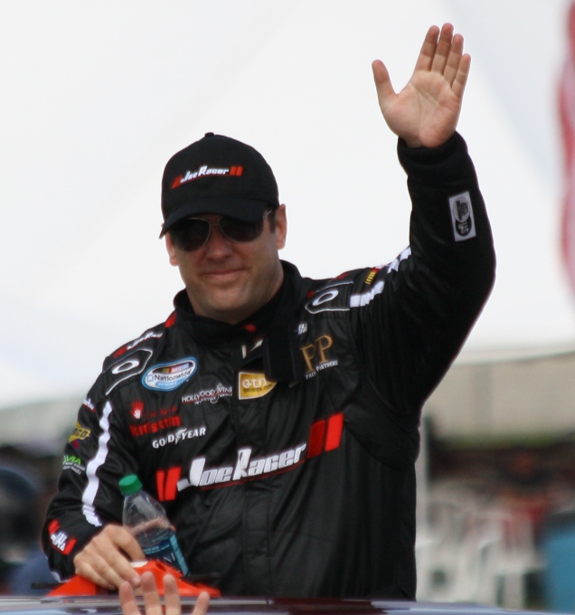 NASCAR driver Kevin O'Connell at the 2013 Johnsonville Sausage 200 Nationwide Series race at Road America.